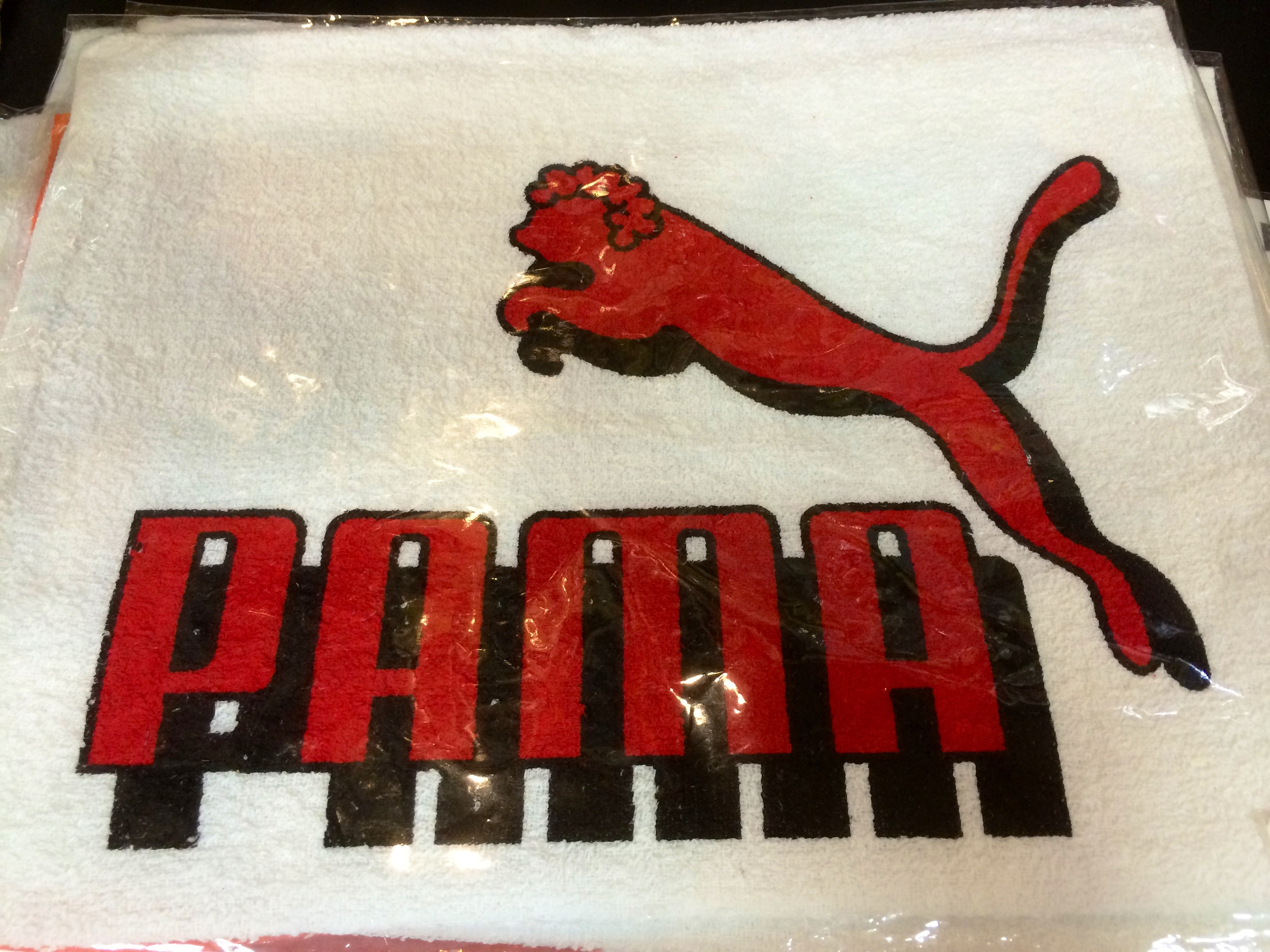 PAMA: close enough